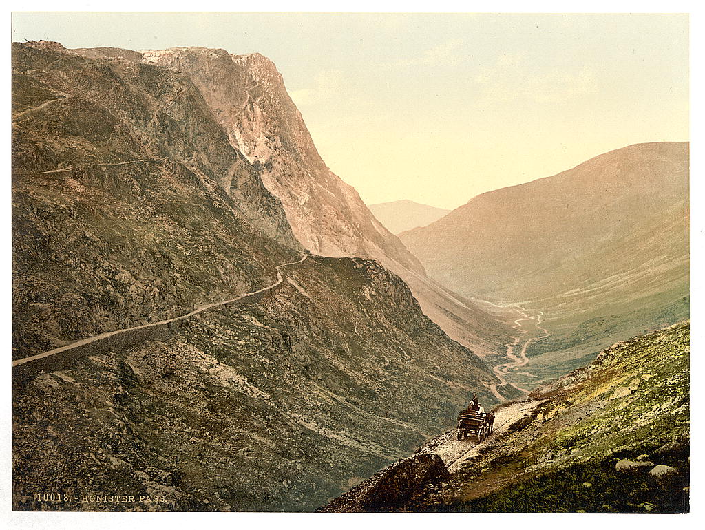 Honister Pass, Lake District, England [between ca. 1890 and ca. 1900]. 1 photomechanical print : photochrom, color. Notes: Title from the Detroit Publishing Co., Catalogue J--foreign section, Detroit, Mich. : Detroit Publishing Company, 1905. Print no. "10018". Forms part of: Views of the British Isles, in the Photochrom print collection. Subjects: England--Lake District. Format: Photochrom prints--Color--1890-1900. Repository: Library of Congress, Prints and Photographs Division, Washington, D.C. 20540 USA, Part Of: Views of the British Isles (DLC) 2002696059 More information about the Photochrom Print Collection is available at Higher resolution image is available (Persistent URL): Call Number: LOT 13415, no. 520 [item]